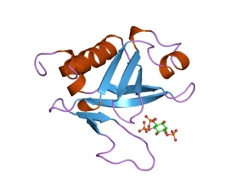 Cartoon representation of the molecular structure of protein registered with 1mai code.